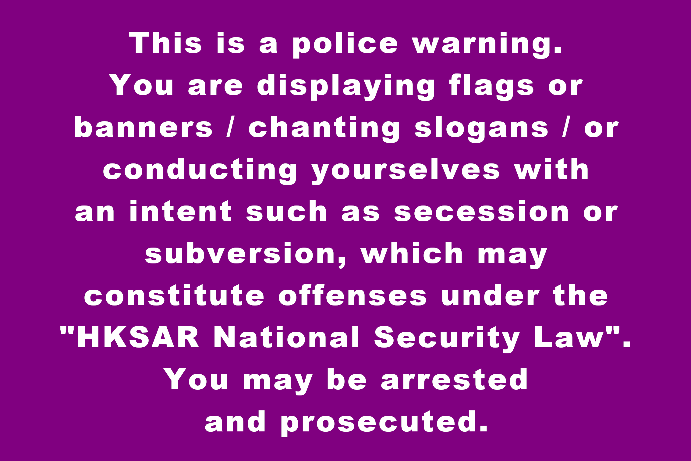 The purple warning sign used by Hong Kong Police Force, to notify the protesters can be involved in the violation to the HKSAR National Security Law.